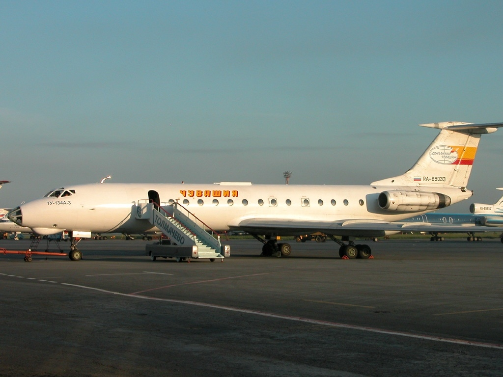 Rare charter in OVB.